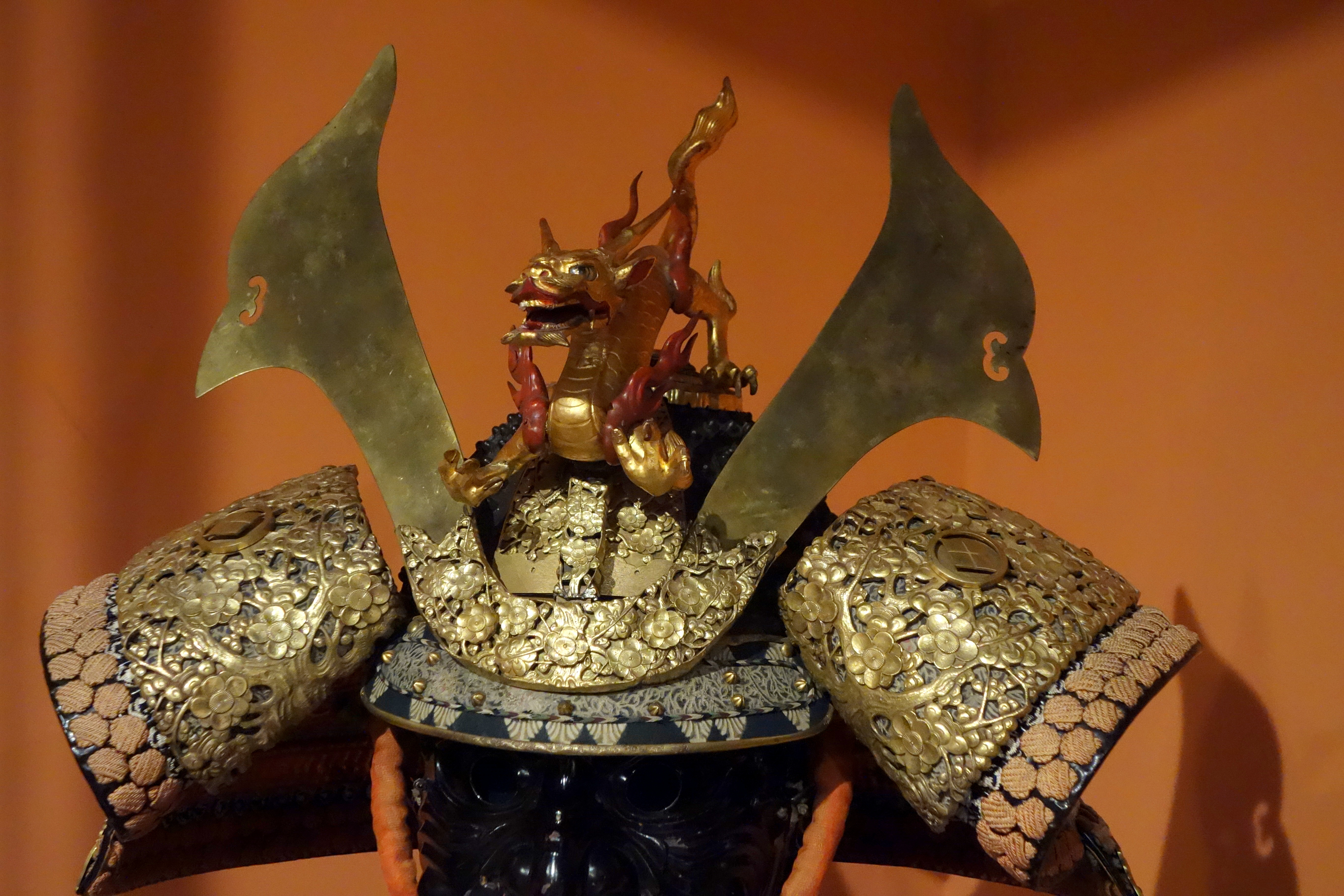 Exhibit in the Glenbow Museum, 130 9th Ave S.E., Calgary, Alberta, Canada. This work is old enough so that it is in the public domain.